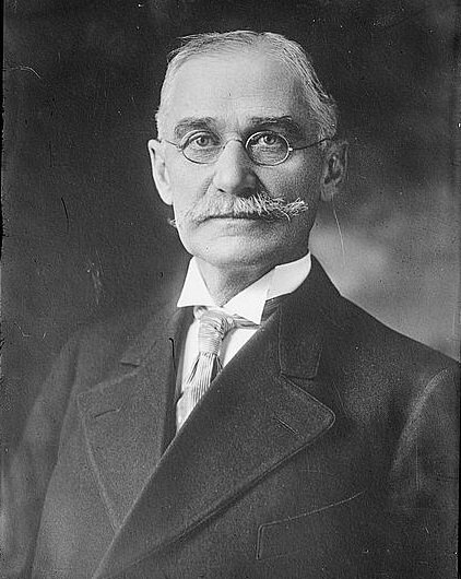 Charles S. Millington, Congressman from New York